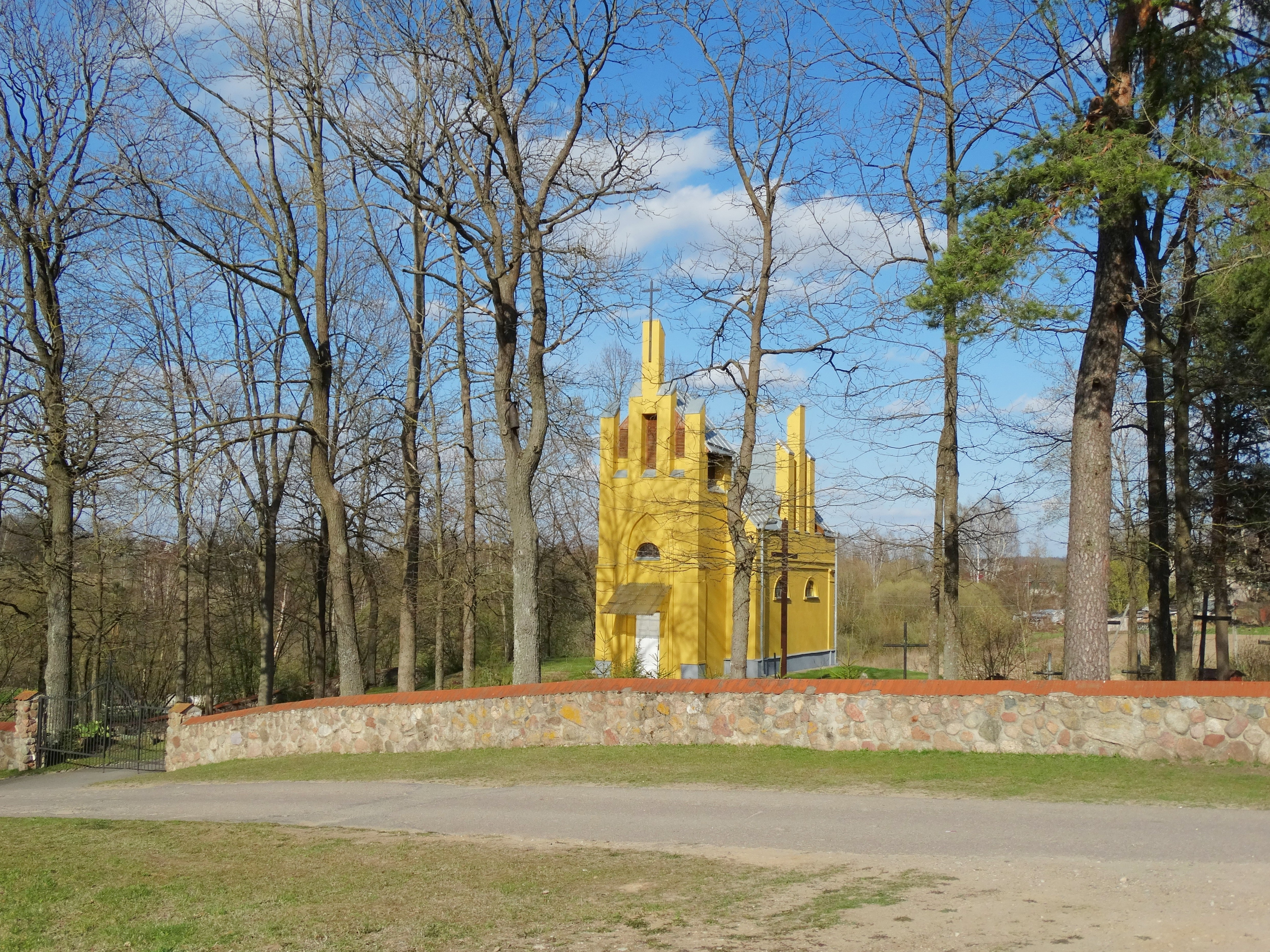 Faustyna Kowalska Chapel in Skaidiškės cemetery, Vilnius district, Lithuania